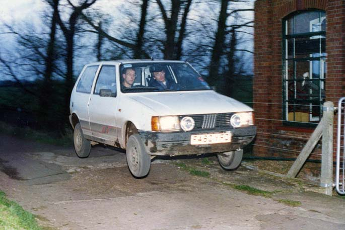 Fiat Uno on Road Rally - Photo supplied by driver to accompany road rally article. Note that despite appearing to be stationary and propped up on stands, in fact the car was travelling at about 80mph, and the photographer measured the length of the jump at 51 feet! The look of terror on the navigator's face compared to the deadpan of the driver's is priceless! Result for this giant-killer was 9th overall, 1st in class out of a total entry of about 60, despite being laughed at at the start. It was my best ever result as a driver. The car was totally standard 999cc FIRE except for uprated brakepads, silicon brake fluid and the driving lights. It beat many 2 litre+ fully-prepared cars on this event. The event was the 1992 Noreaster rally, run in Cambridgeshire - an event notorious for its extensive use of green lanes and fiendish navigation. Navigator here was Andy Watson, driver was Graham Cox. [1]